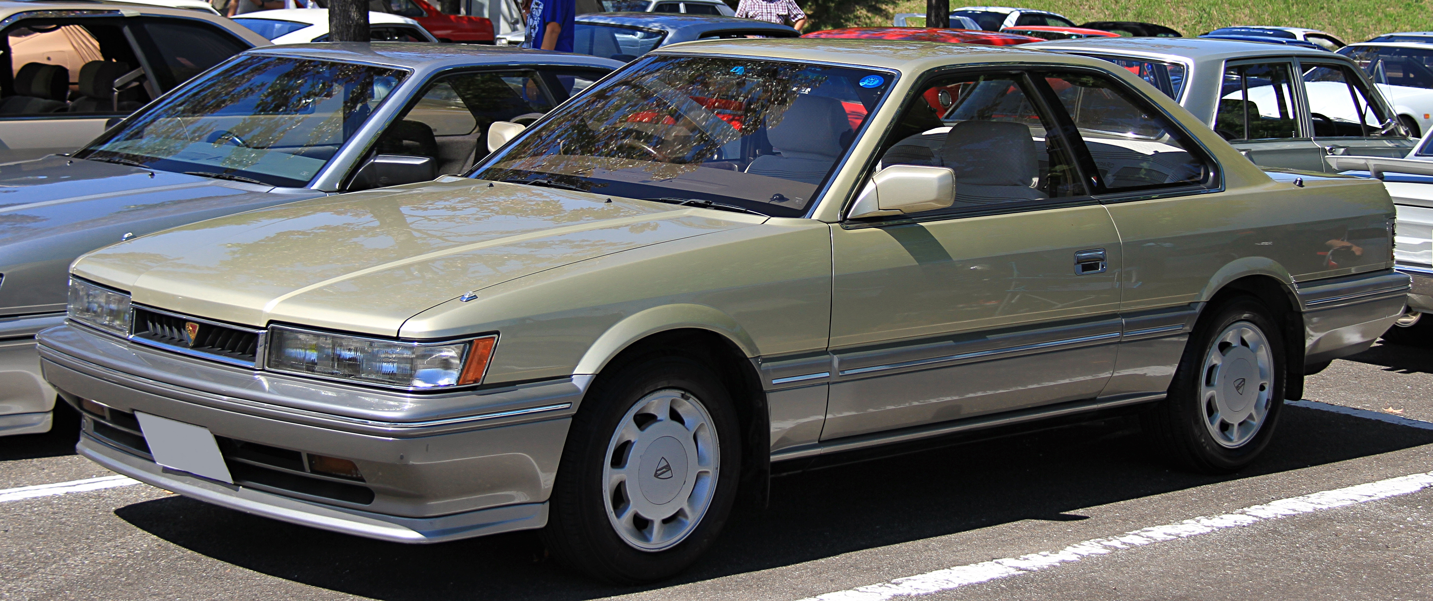 Nissan Leopard